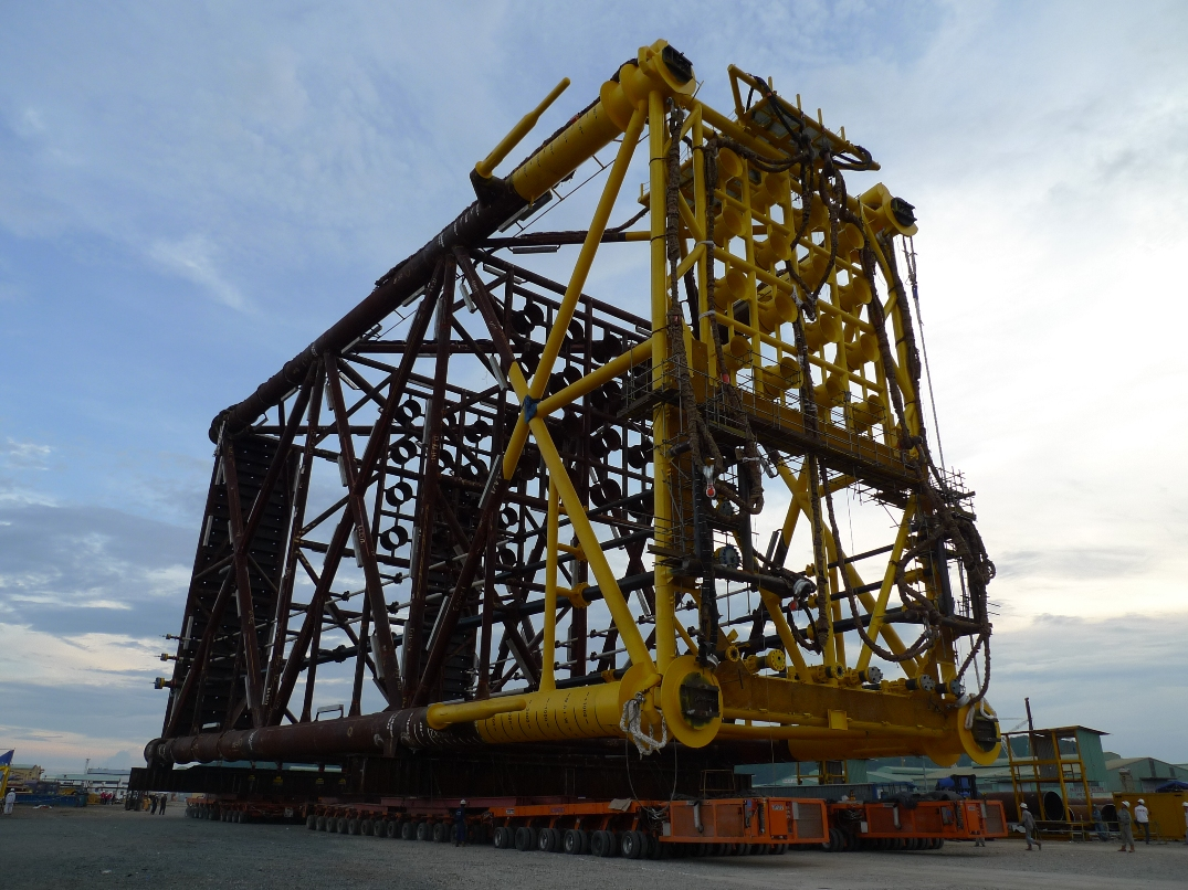 Jacket H1 on SPMT/trailers to TERAS 339 barge. PTSC fabrication site.